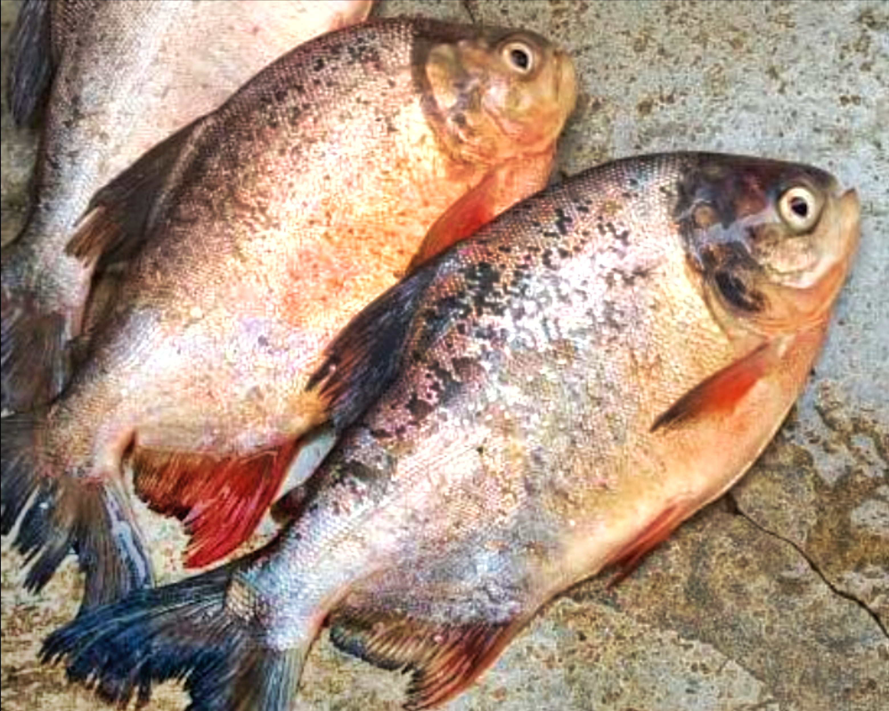 Sandhuva fish